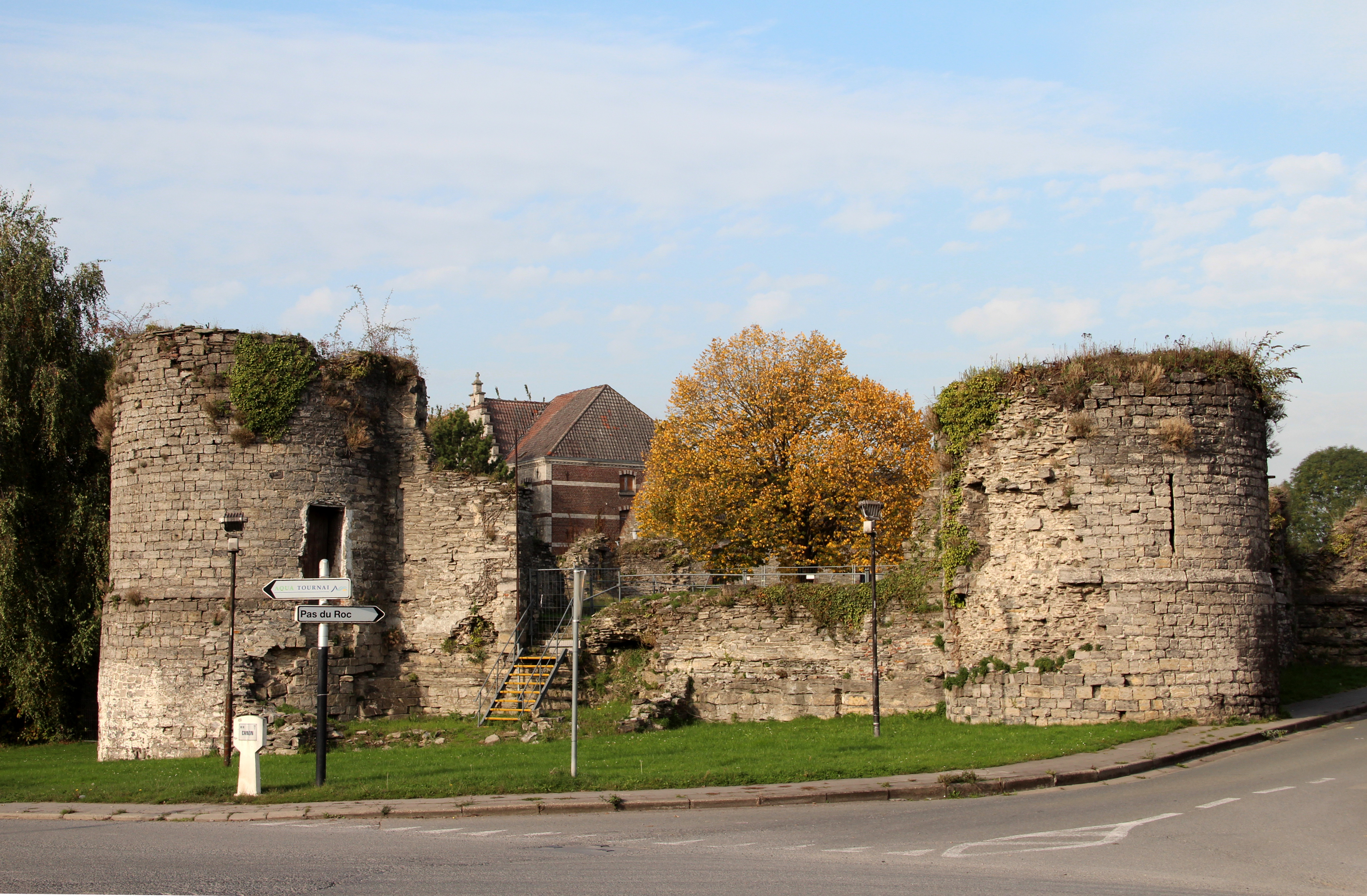 Vaulx (Belgium), ruins of the old castle, said Castle of Julius Caesar (XIIIth century).